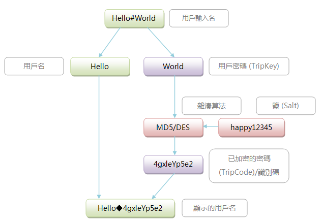 Flow of generating a TripCode.